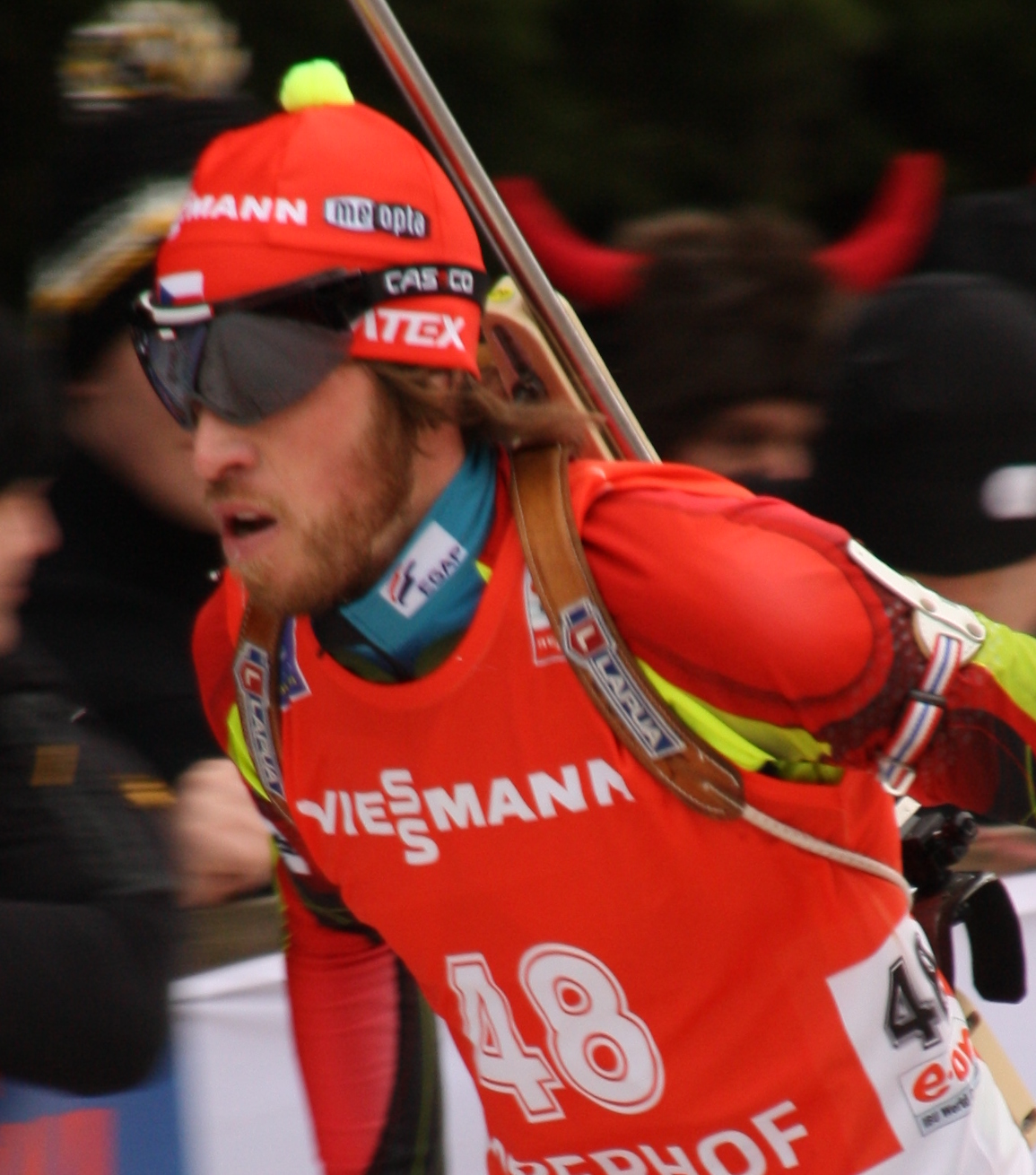 Biathlon World Cup Oberhof 2014 - Mens Pursuit